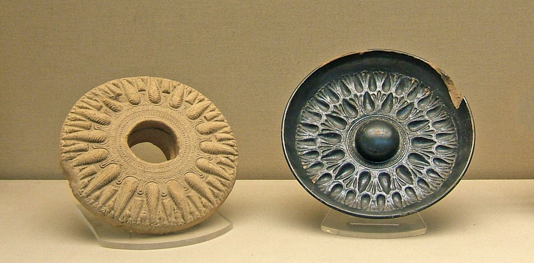 Campanian black-gloss phiale (libation vessel), displayed with a fired-clay mould used for making a similar vessel. Southern Italy, 3rd-2nd century BC. British Museum, London. GR 1839.11-9.37c (dish); GR 1873.8-20.507 (mould).